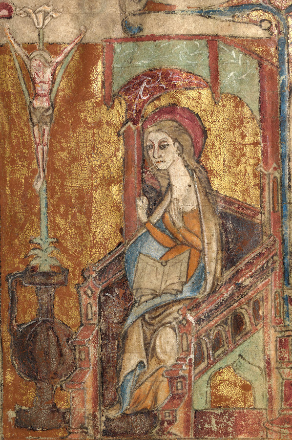 The Annunciation : The Virgin Mary enthroned under a green canopy. On the left is a large silver vase containing a tall lily, with a figure of the crucified Christ on the stalk and leaves - An image thought to be unique in manuscripts